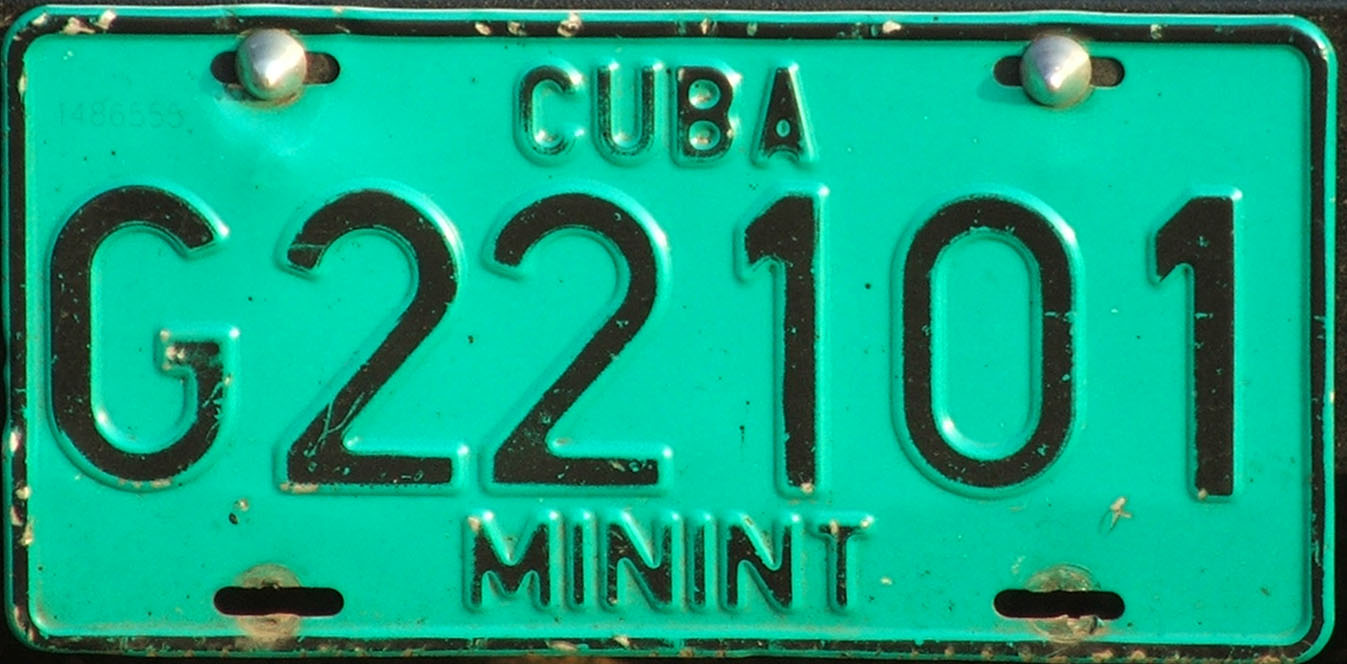 Cuban registration plate as seen in 2009.